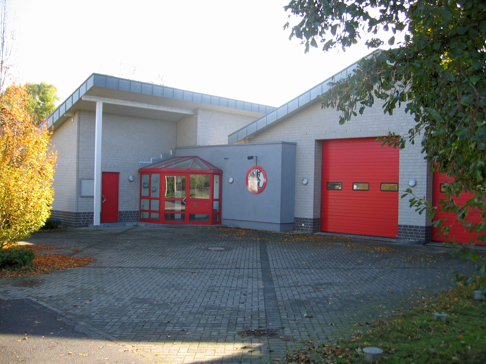 Deviceshouse Fire Brigade Würm, to Leiffarth